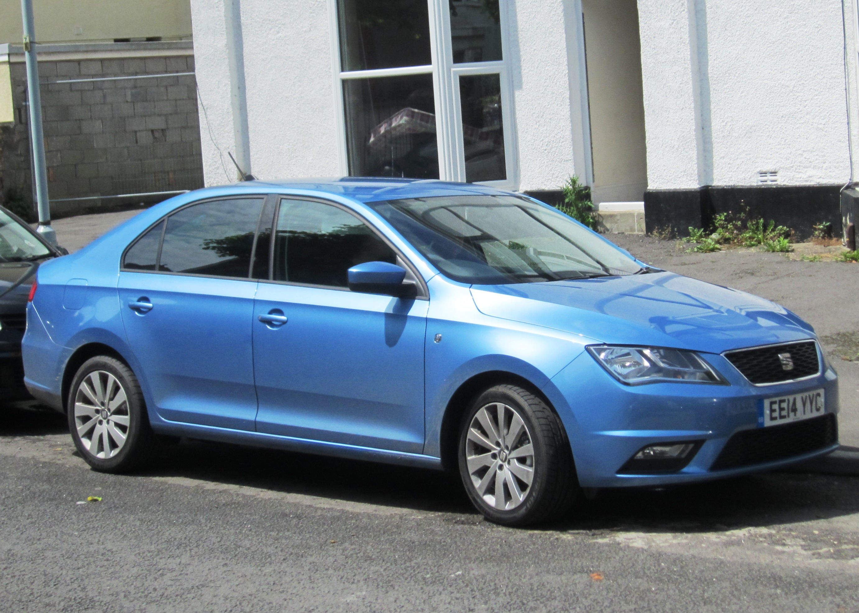 Seat Toledo 1.6D in Swansea in an interesting shade of blue License plate has been changed for anonymisation purposes, but year code remains correct.